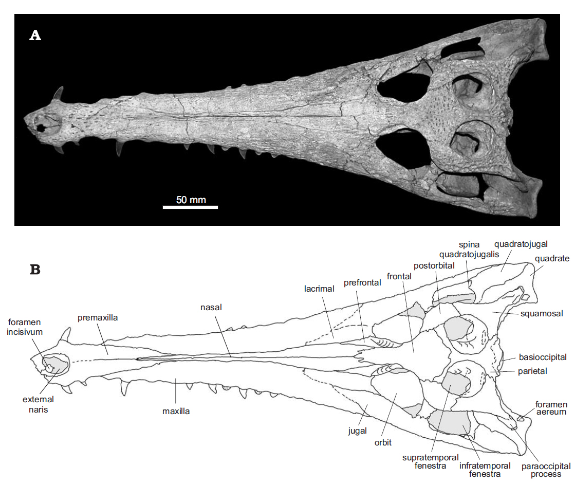 Holotype of Eosuchus lerichei Dollo, 1907. IRSNB R 48, Jeumont, France, late Paleocene, skull in dorsal view, skull in ventral view